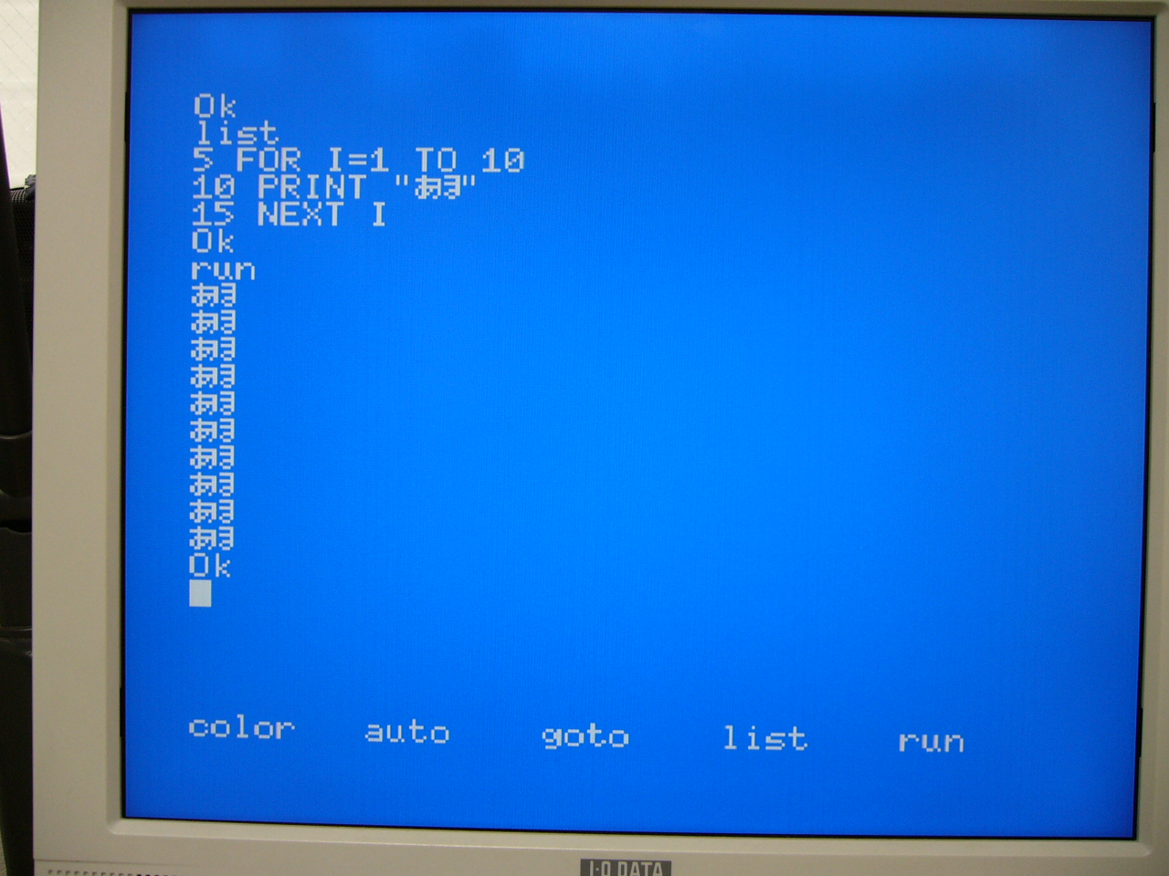 MSX-BASIC program on screen.